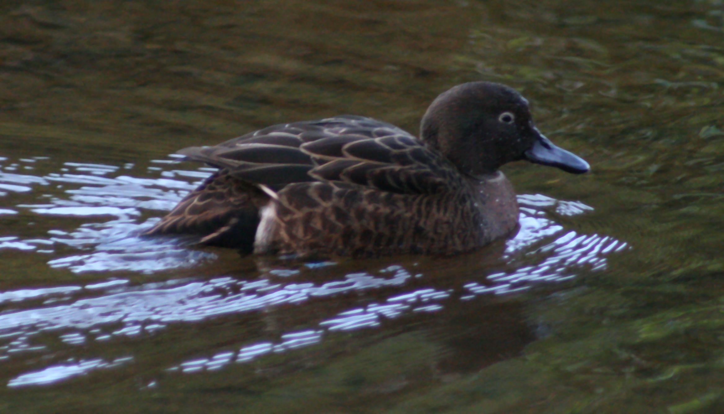 Brown teal (Anas chlorotis) in water at Karori wildlife sanctuary in Wellington, New Zealand.